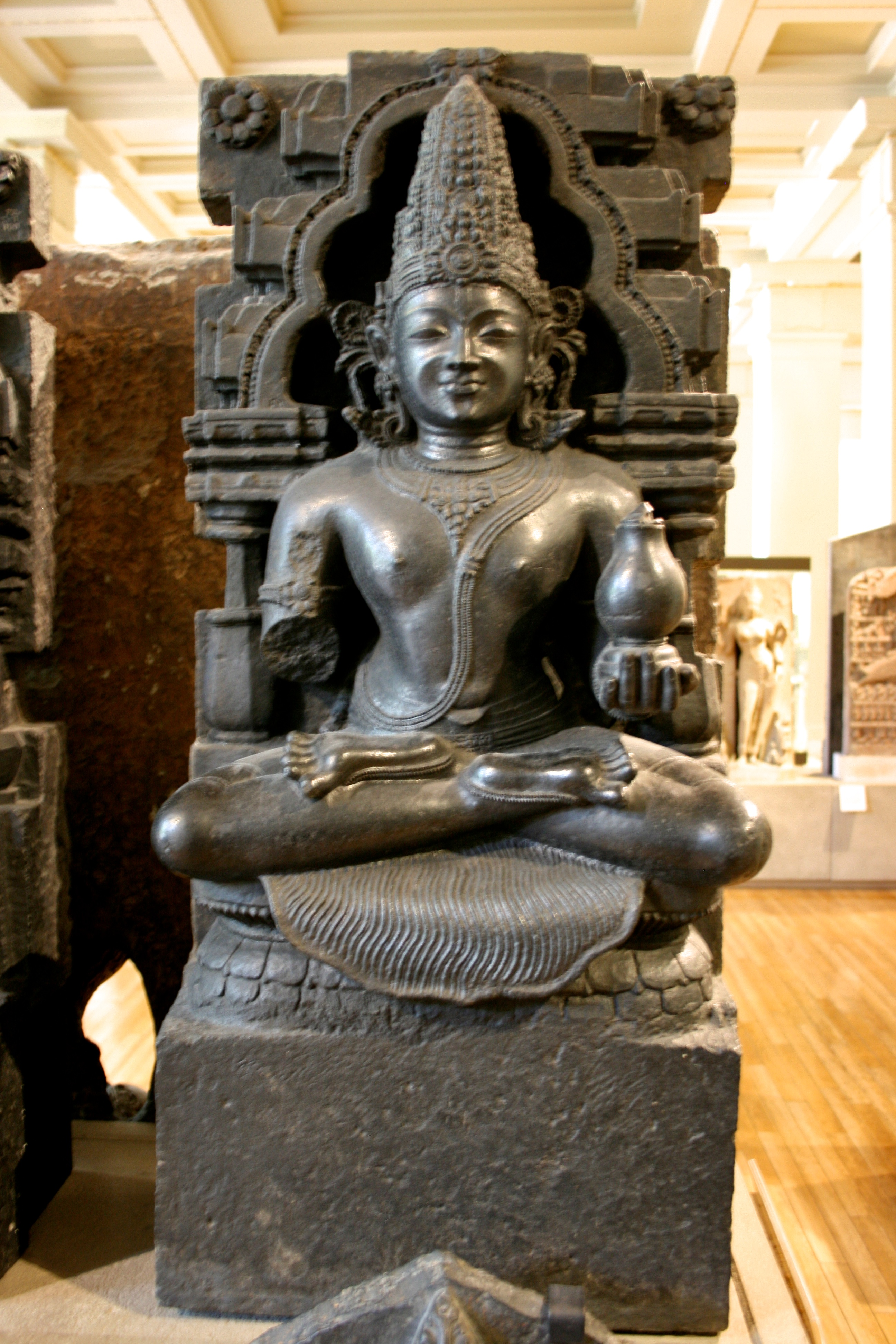 Personification of a planet. Konarak, Orissa, 13th century. Donated by the Church Missionary Society, London. Asia 1951.7-20.4. In the British Museum.